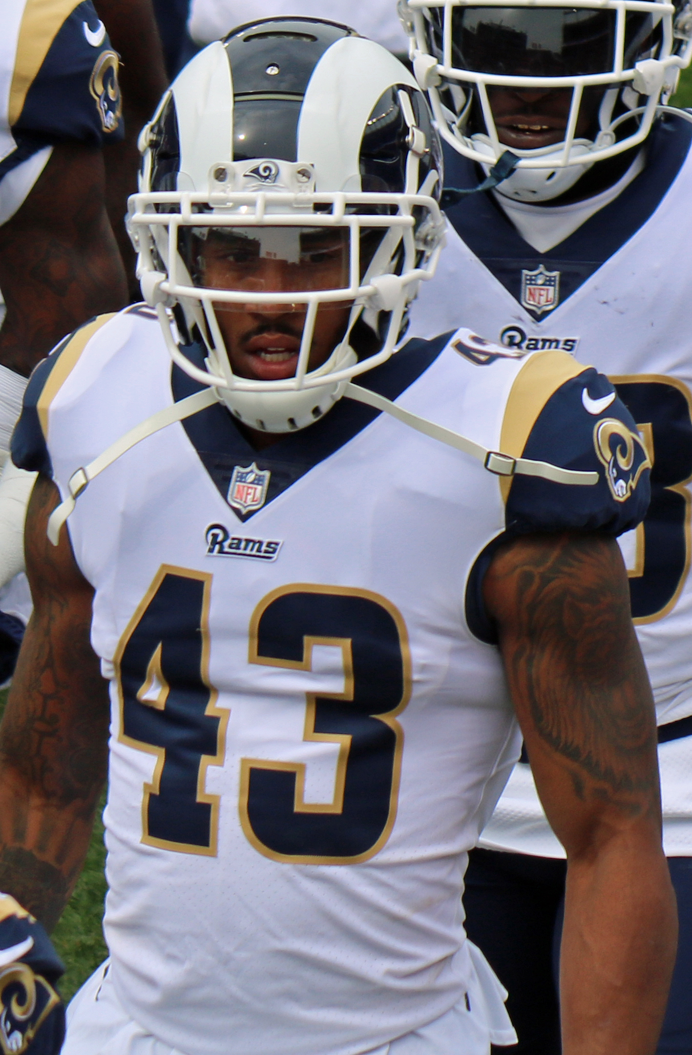 John Johnson, a National Football League player.